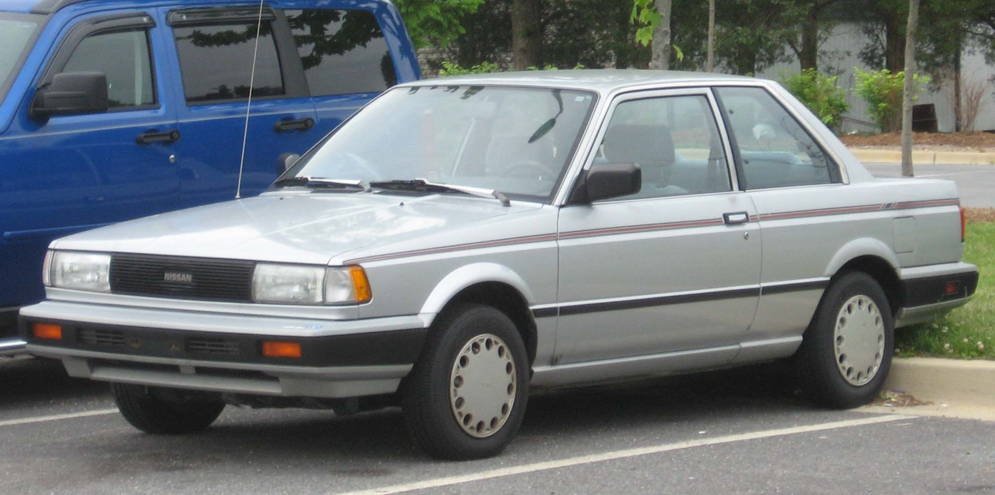 1989-1990 Nissan Sentra photographed in Accokeek, Maryland, USA.